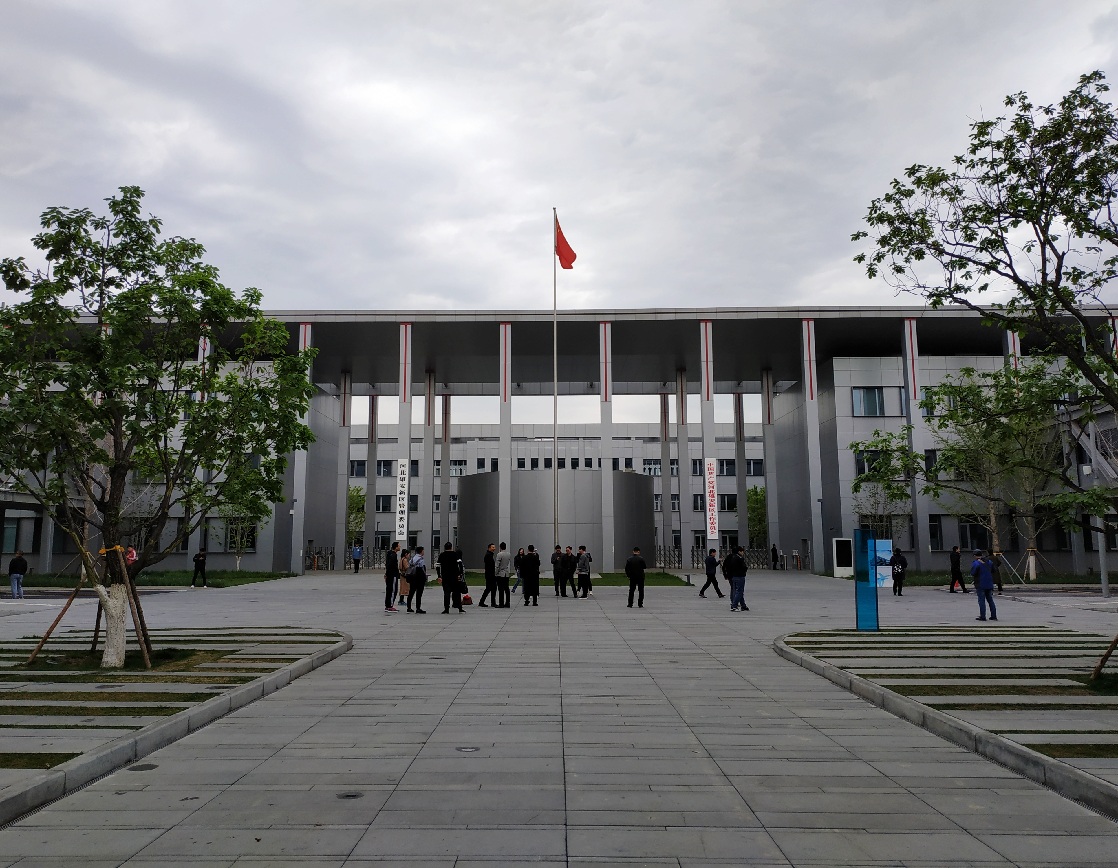 Government of Xiong'an New Area, situated in Xiong'an Citizen Service Center.